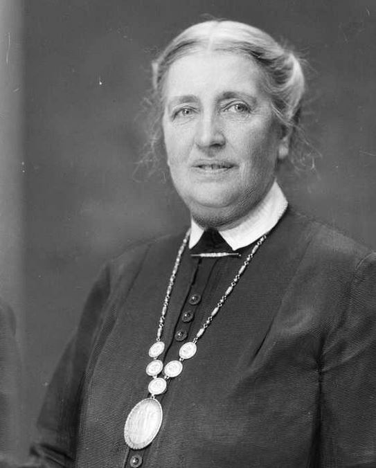 Norwegian writer and suffragist Marie Michelet (1866–1951), photo from 1932